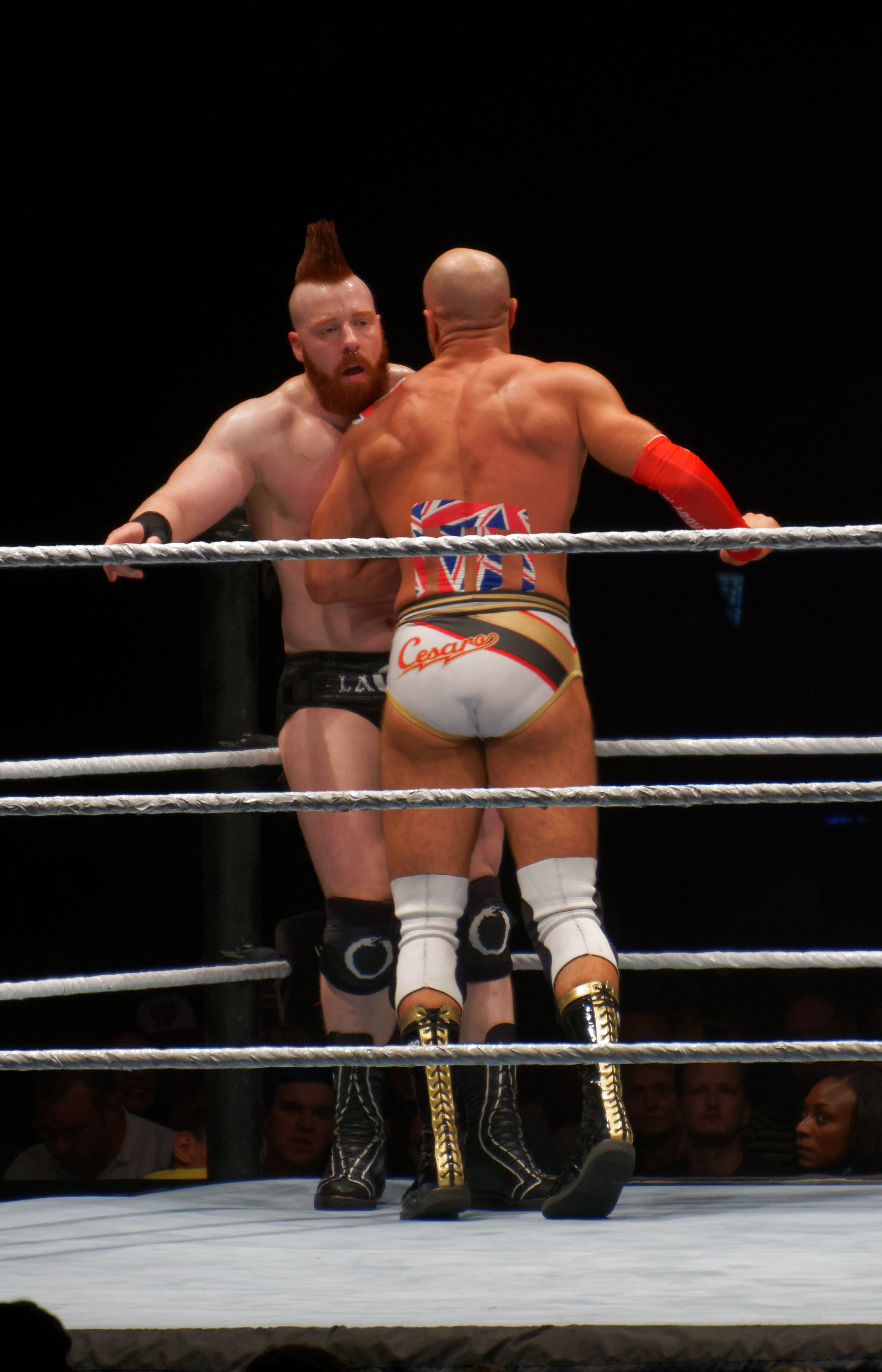 WWE Live returns to London this September Join Roman Reigns, Seth Rollins and more WWE Superstars at the 02 Arena for a one-night-only WWE Live in London on Wednesday, 7 Sept. Cesaro def. (pin) Sheamus Type of match : 'Best of 7' series